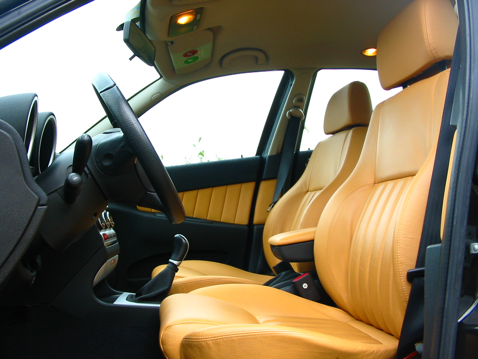 Interior of the Alfa Romeo 156 second series